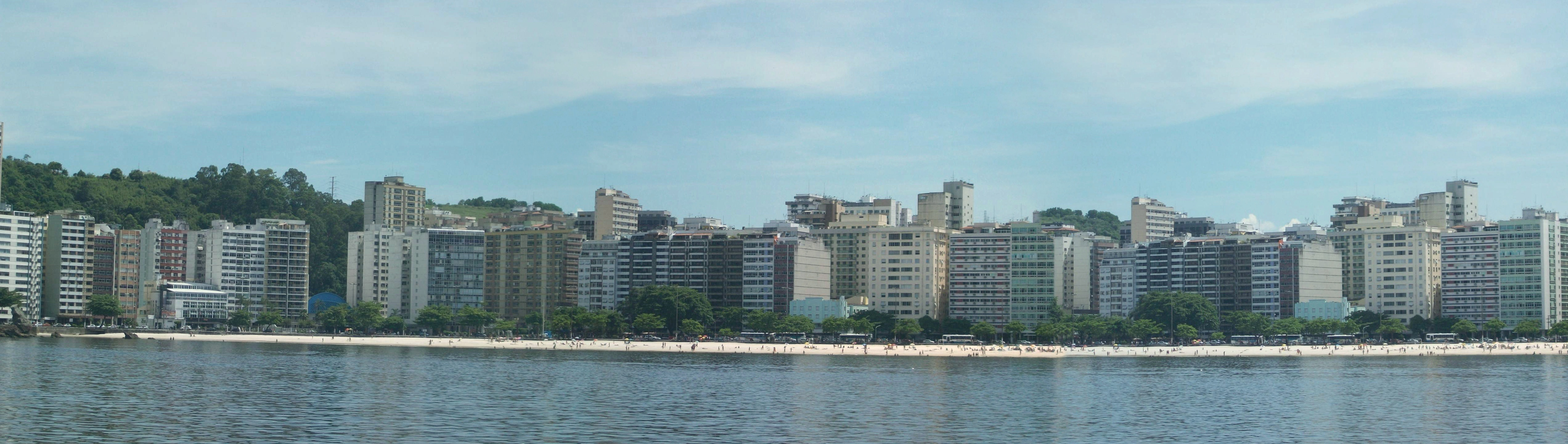 Panoramic Photo (3 photos merge) of Icarai Beach, Niteroi, Brazil